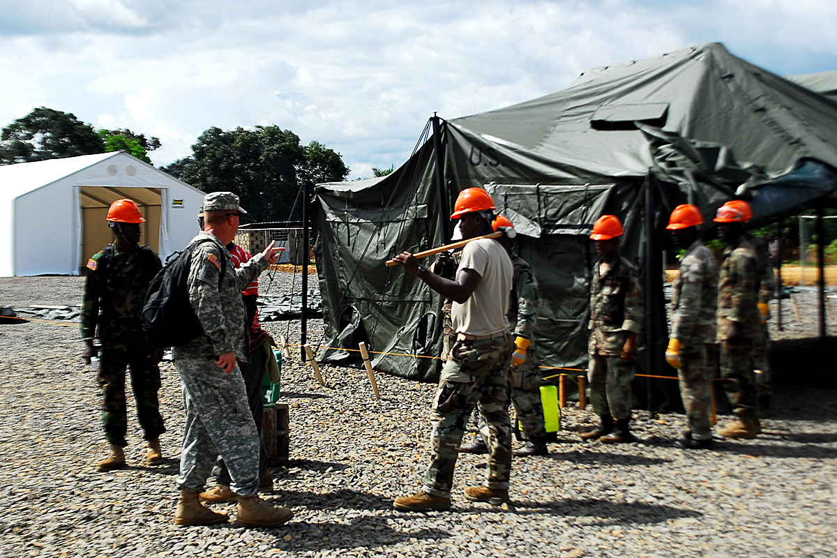 Ebola treatment center, Tubmanburg, Liberia 2014